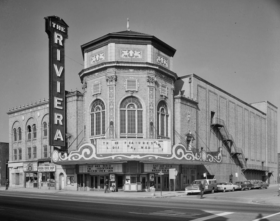 Grand Riviera Theatre — a former movie palace in Detroit, Michigan. The three films listed are Salt and Pepper (1968), The Executioner (1970), and Machine Gun McCain (American title for the Italian film Gli intoccabili (1968)). The Italian Renaissance Revival and Mediterranean Revival styled 1925 cinema, demolished in 1996, was located at 9222 Grand River Avenue near West Grand Boulevard in western Detroit. Image courtesy of federal HABS—Historic American Buildings Survey of Michigan project. (1970).